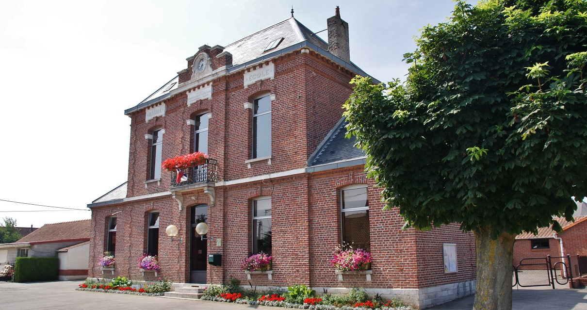 La Mairie